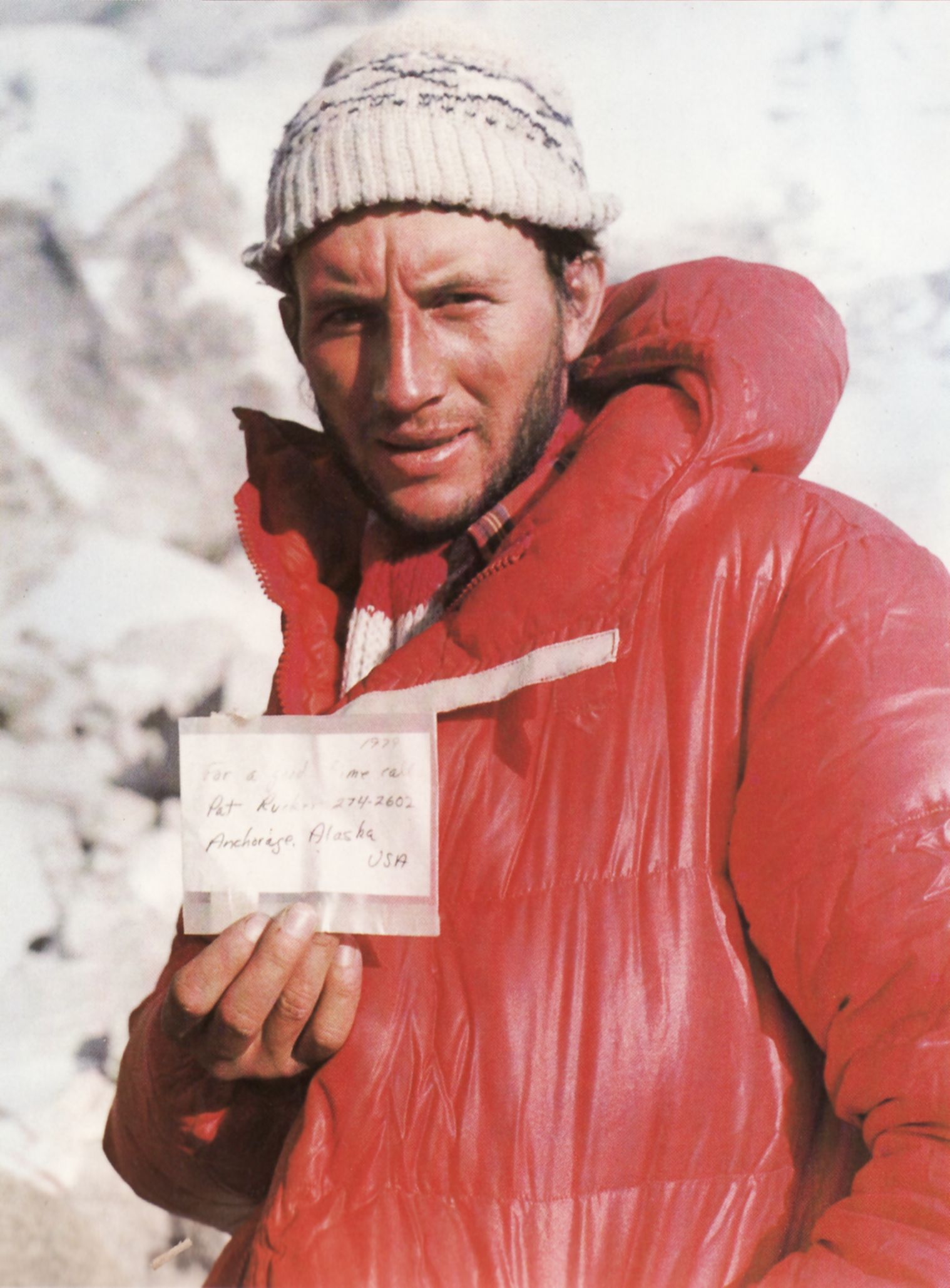 Leszek Cichy presents note which in 1979 Ray Genet left on top of Mount Everest. On February 17, 1980 - Leszek and Krzysztof Wielicki did first winter assent of Mount Everest.